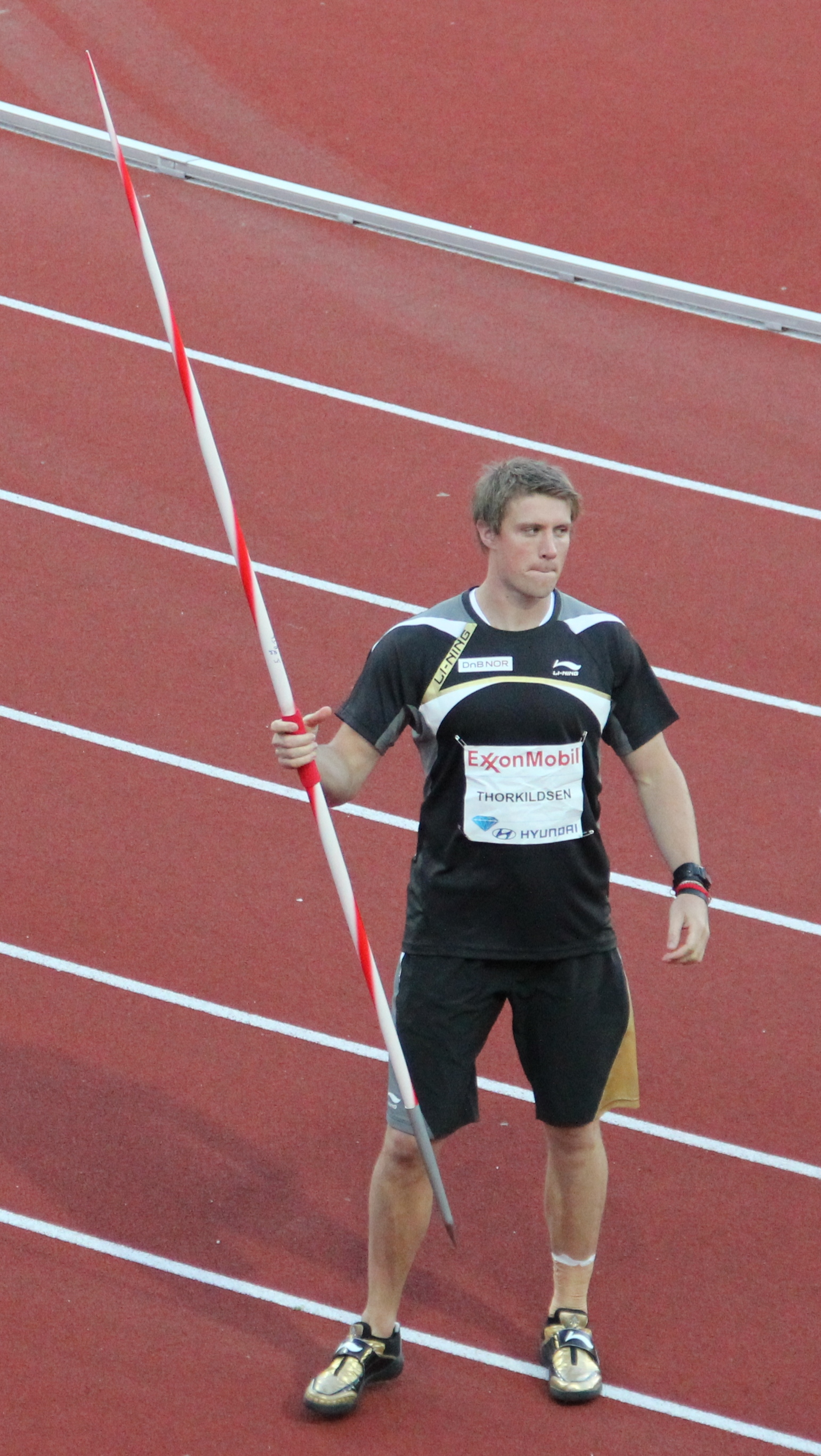 Andreas Thorkildsen at the 2010 Bislett Games